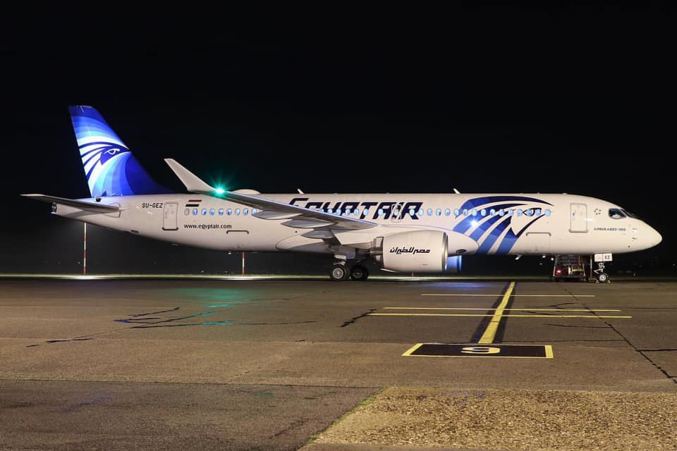 EgyptAir Airlines A220-300